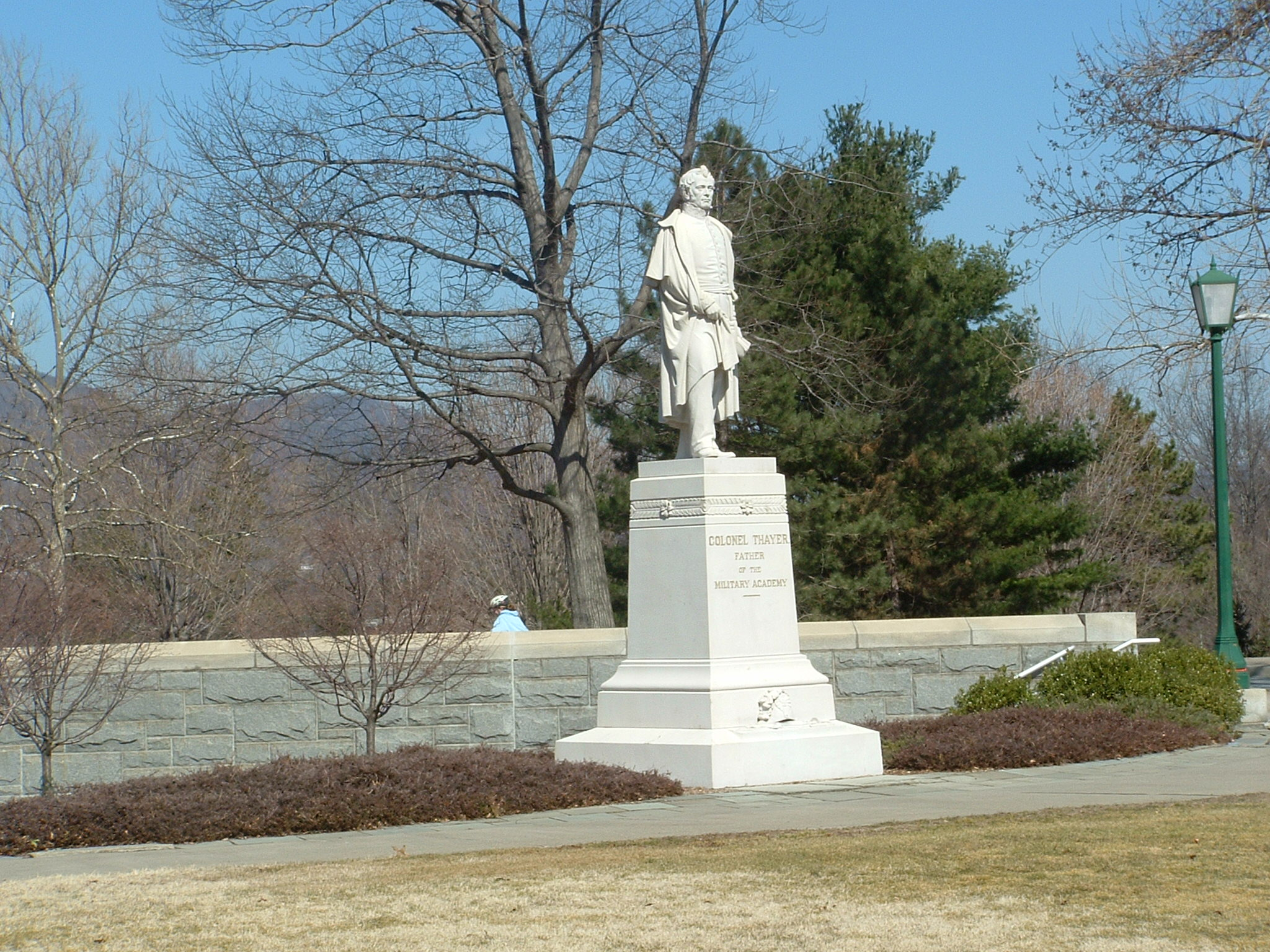 Statue and memorial to Sylvanus Thayer, on display at the United States Military Academy at West Point.